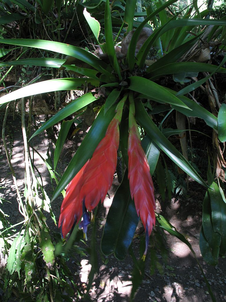 Tillandsia multicaulis, in habitat in El Salvador, Dept. Santa Ana, Parque Nacional Montecristo; 1841m.